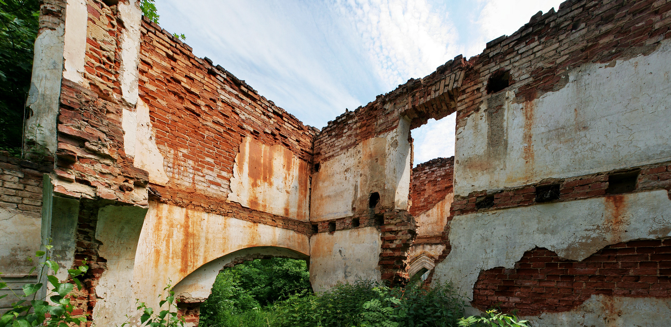 Mitriūnai manor palace ruins, Lithuania